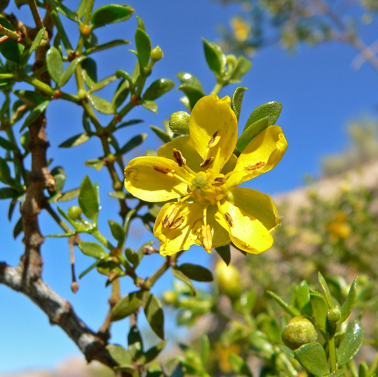 Photo of Larrea tridentata (creosote bush) in Red Rock Canyon, Nevada